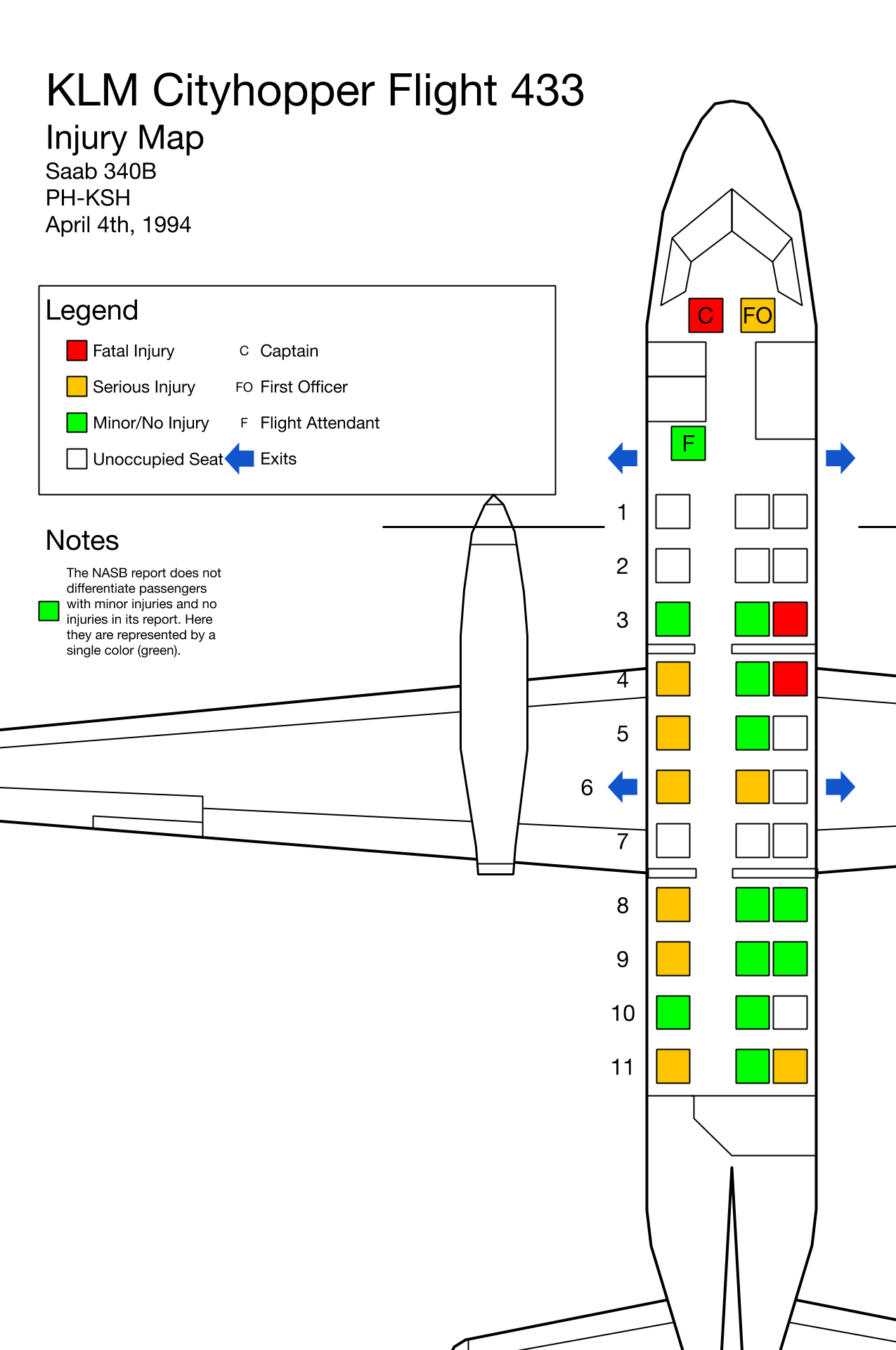 Seat plan of KLM Cityhopper Flight 433, showing non-survivors and survivors based off of severity of injury.